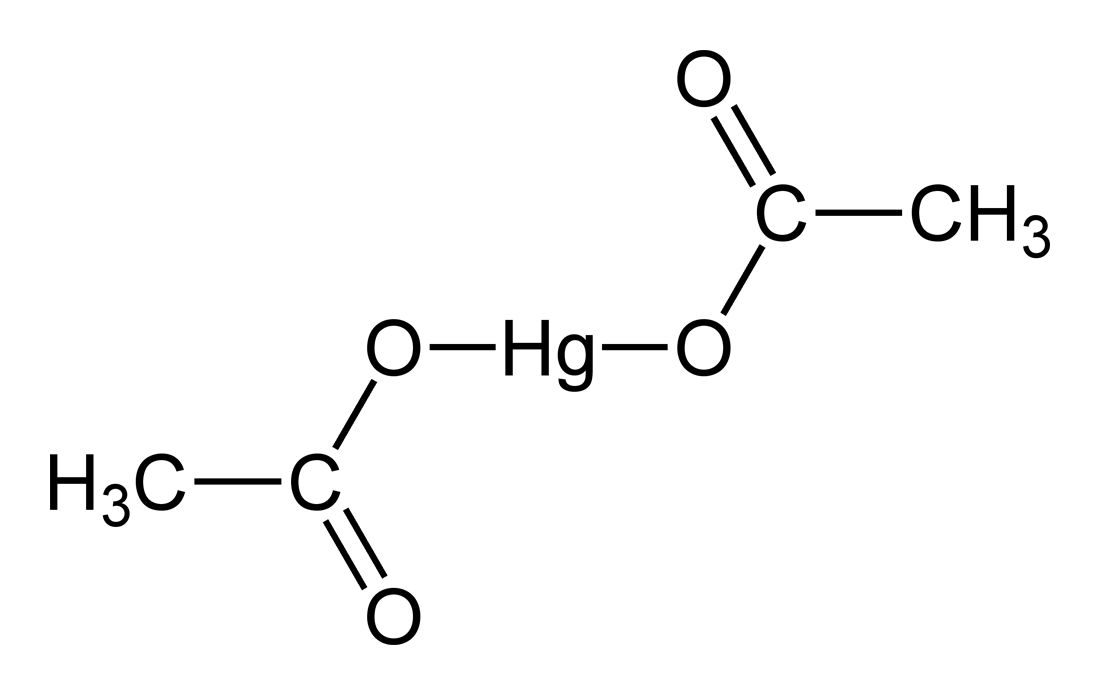 Structural formula of an Hg(OAc)2 molecule from the crystal structure of mercury(II) acetate. X-ray crystallographic data from Z. Kristallogr., Kristallgeom., Kristallphys., Kristallchem. (1973) 138, 366-373. Diagram drawn in ChemDraw Ultra 11.0.